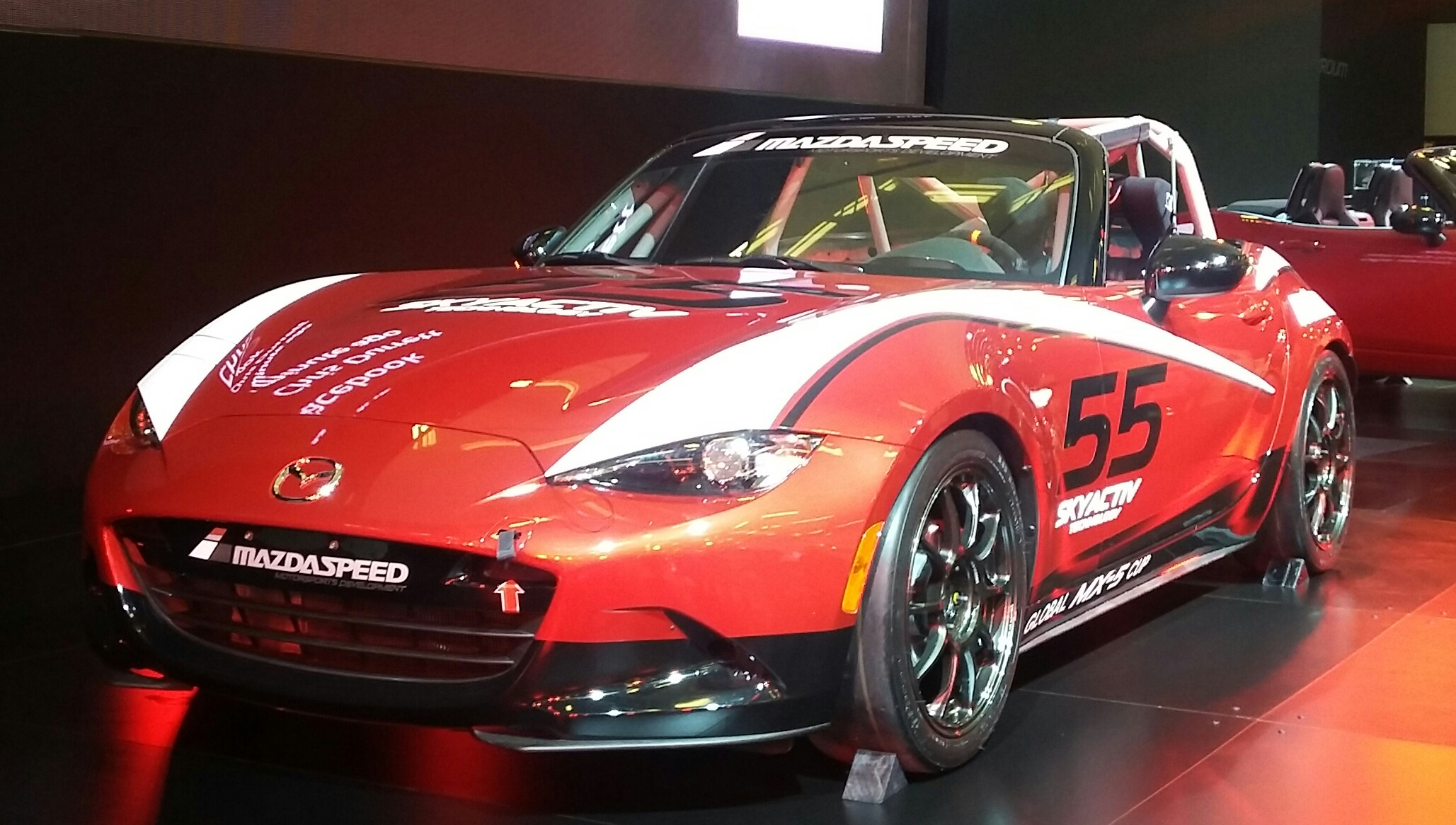 2016 Mazda MX-5 competition car photographed in Montreal, Quebec, Canada at the Salon International de l’auto de Montréal 2016.